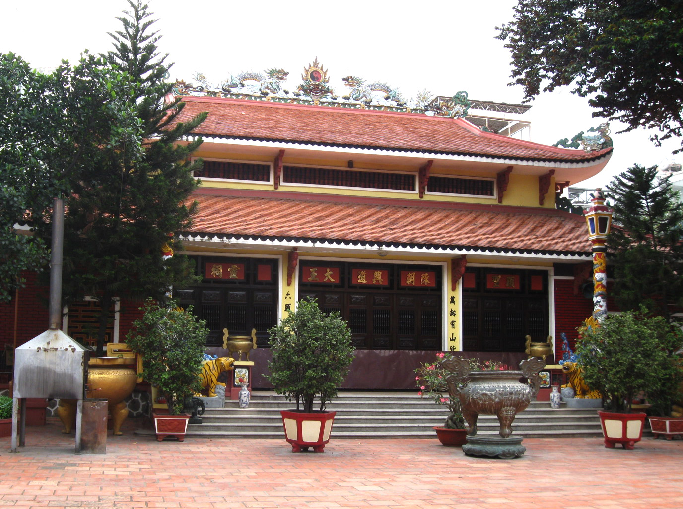 Tran Hung Dao temple on district 1, saigon